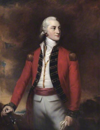 Major-General John Gaspard Le Marchant